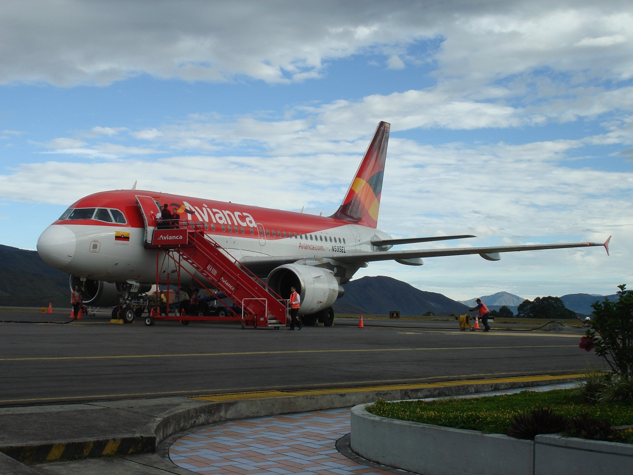 Airbus A318 en el aeropuerto Antonio Nariño